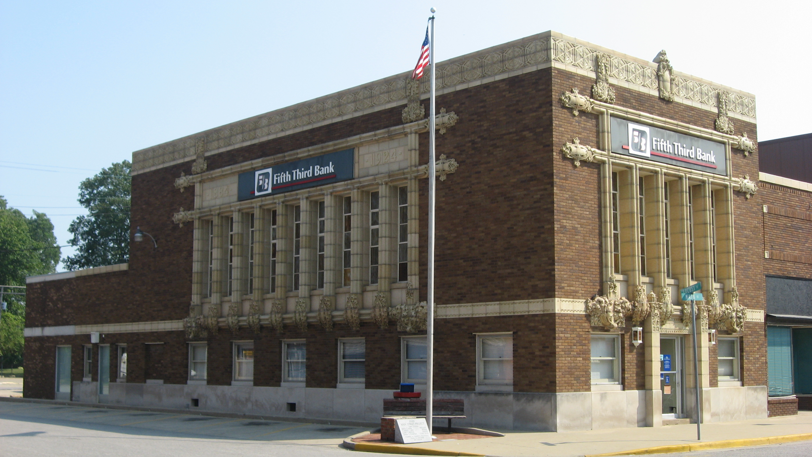 Front and western side of the Bozeman-Waters National Bank, located at 19 W. Main Street (State Roads 68/165) in downtown Poseyville, Indiana, United States. Built in 1924, it is listed on the National Register of Historic Places, and it is part of the locally-designated Poseyville Historic District.